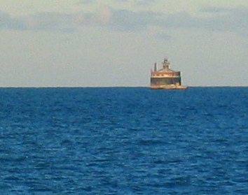 Wilson Avenue water crib in Lake Michigan, photographed from Montrose Point, Chicago, Illinois.